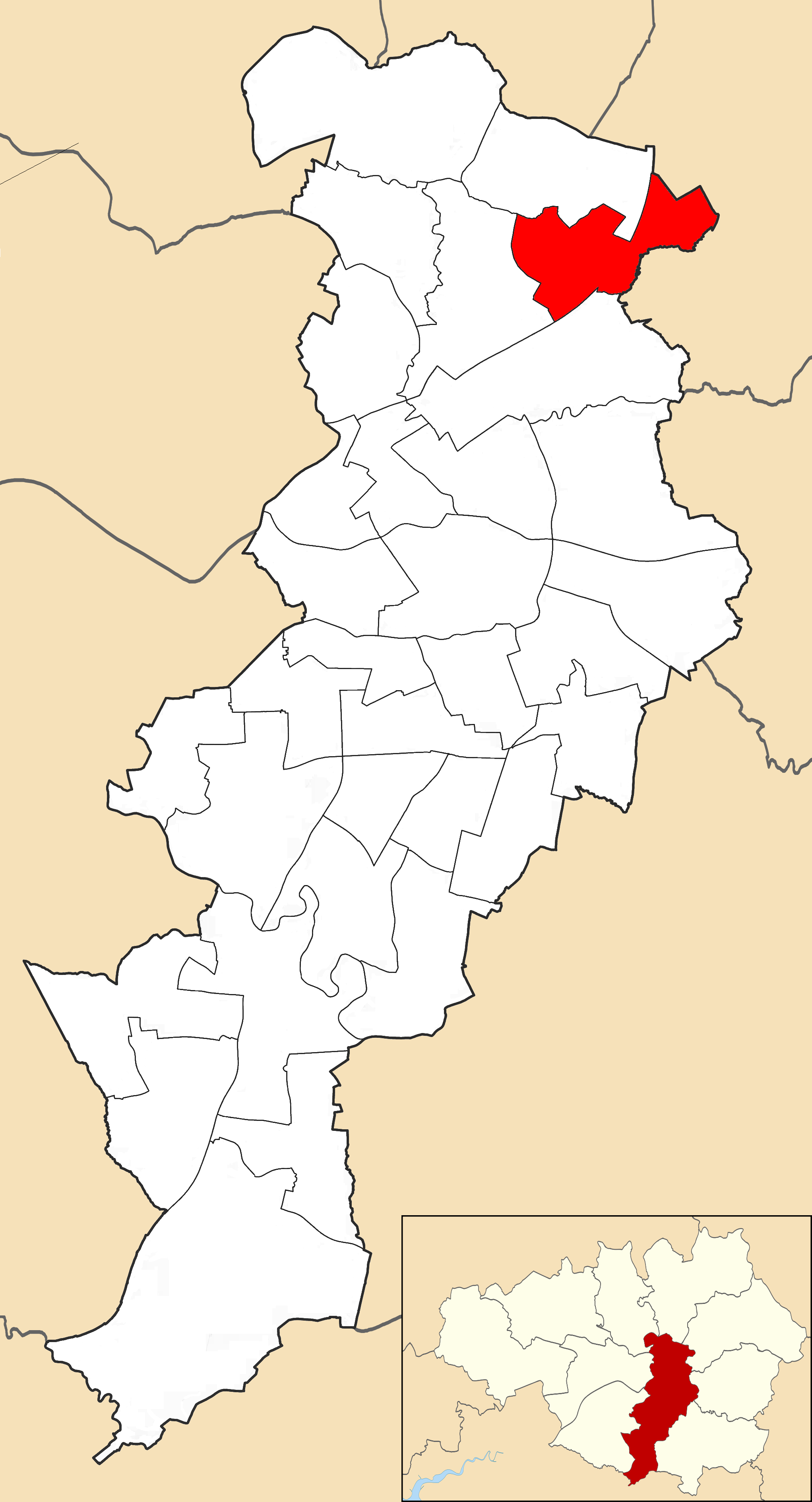 Map showing location of Moston ward within Manchester City Council.